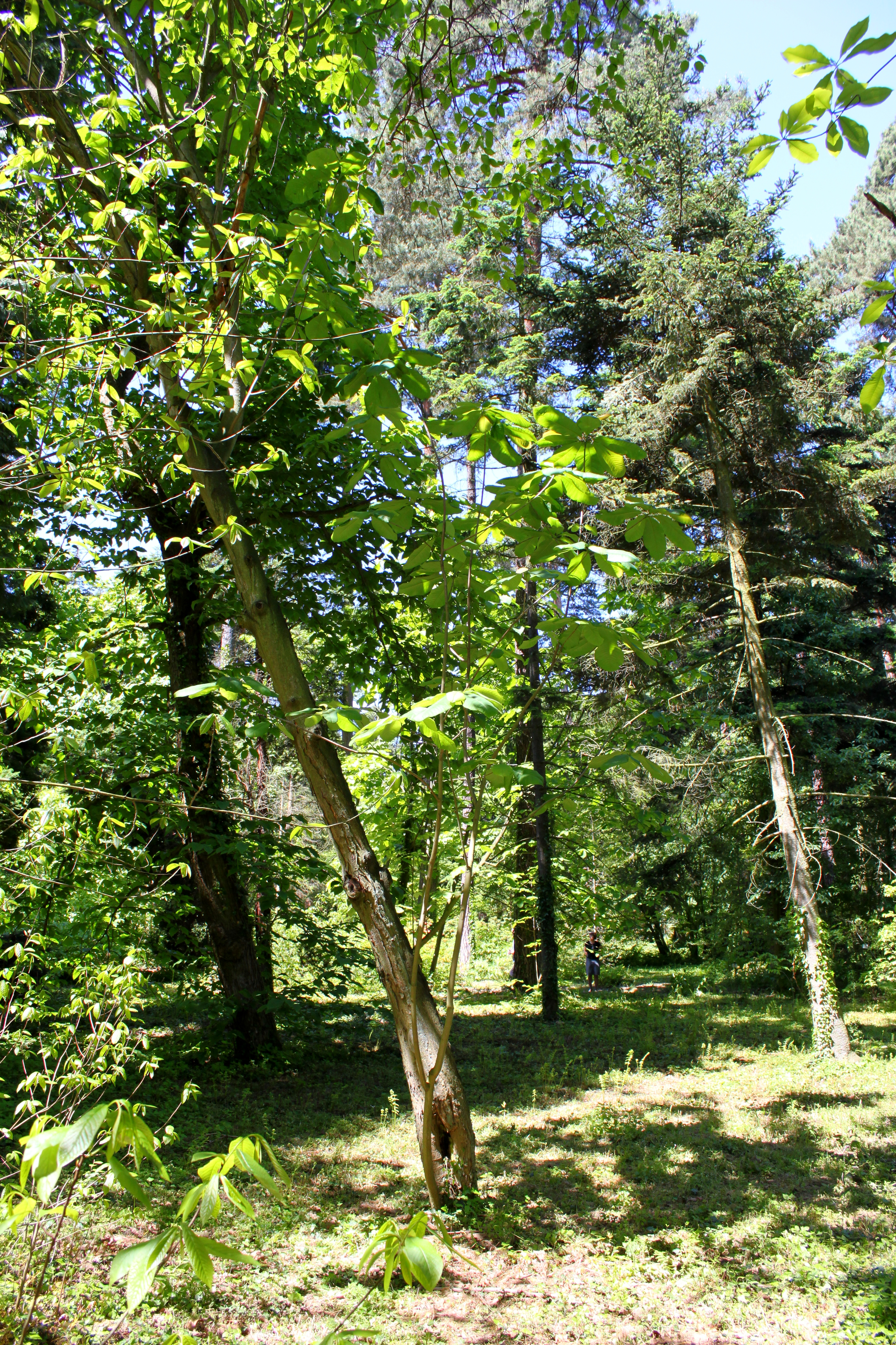 Magnolia officinalis in Rogów Arboretum